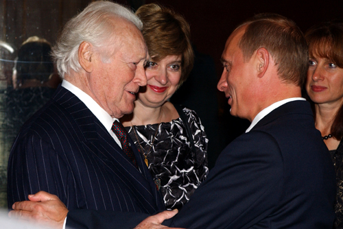 Russian President Vladimir Putin meets with French author Maurice Druon in the Bolshoi Theatre. Moscow, September 29, 2003. Original description by the Russian presidential press service